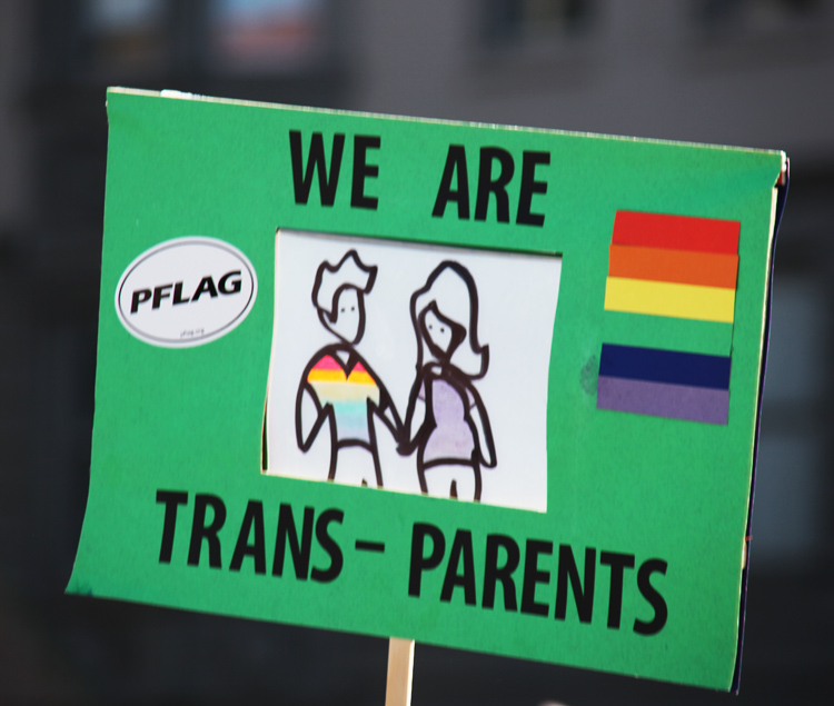 One of the best signs I saw all day. At the Capital Pride parade near Dupont Circle in Washington, D.C., in the United States on June 9, 2012.